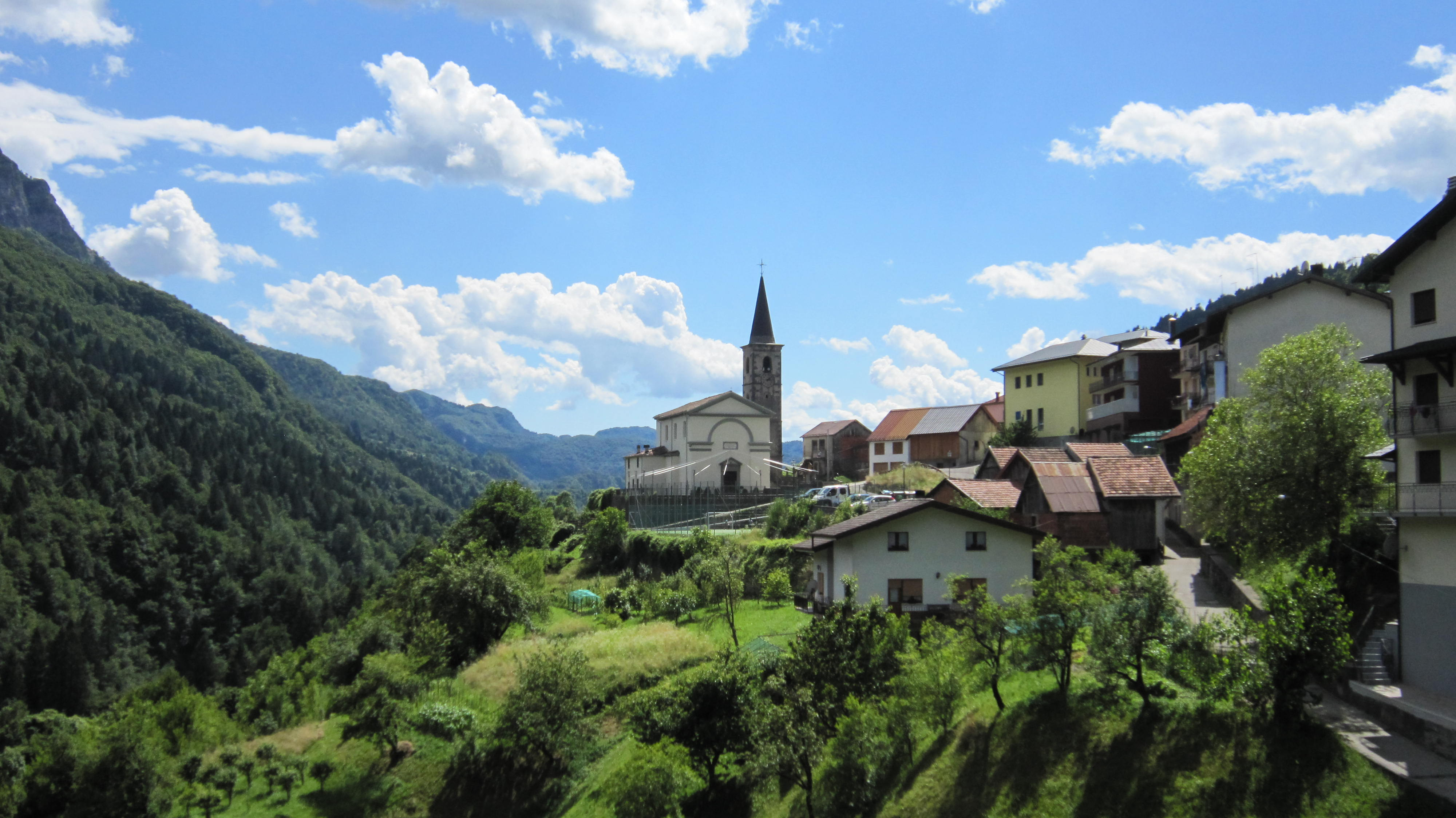 paularo salino